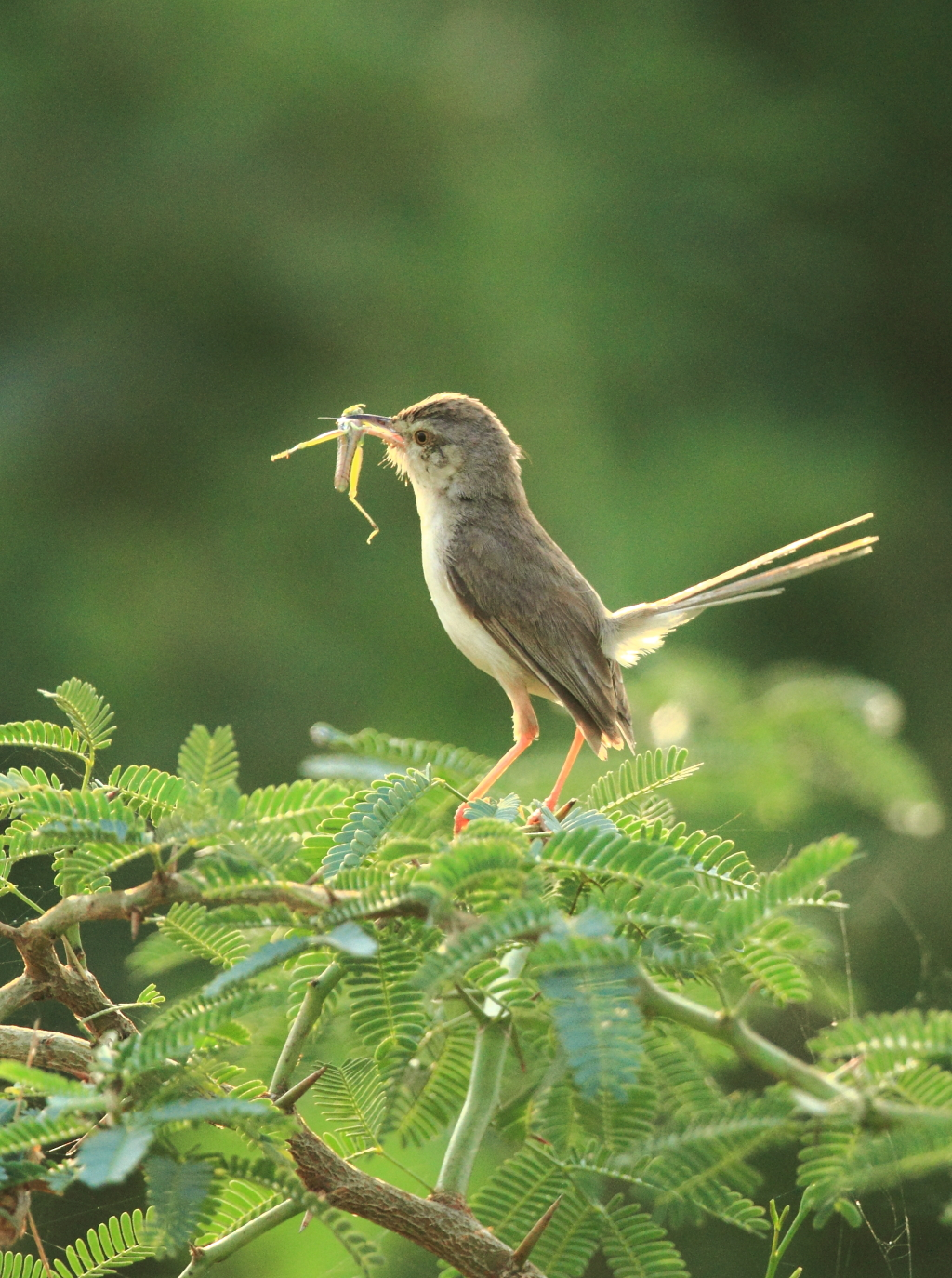 Plain Prinia taken at Edulabad Lake.